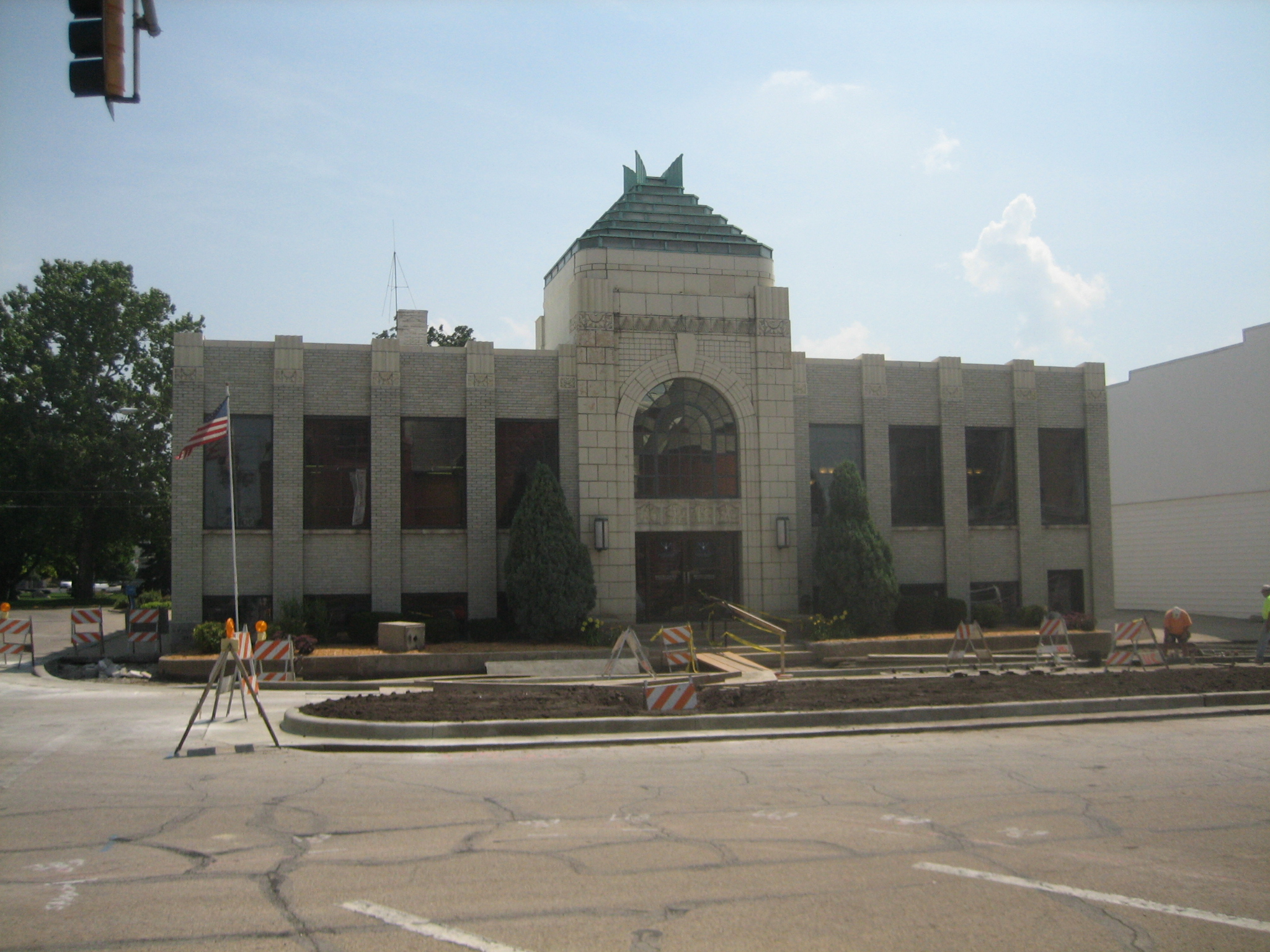 Art deco style building in downtown Sterling, Illinois, USA.